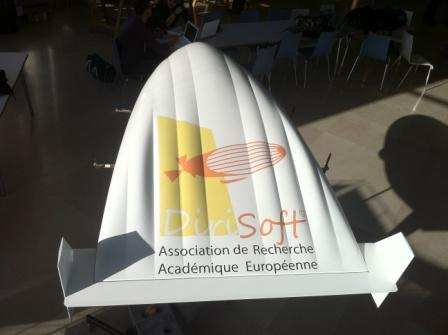 Balloon Paris Region